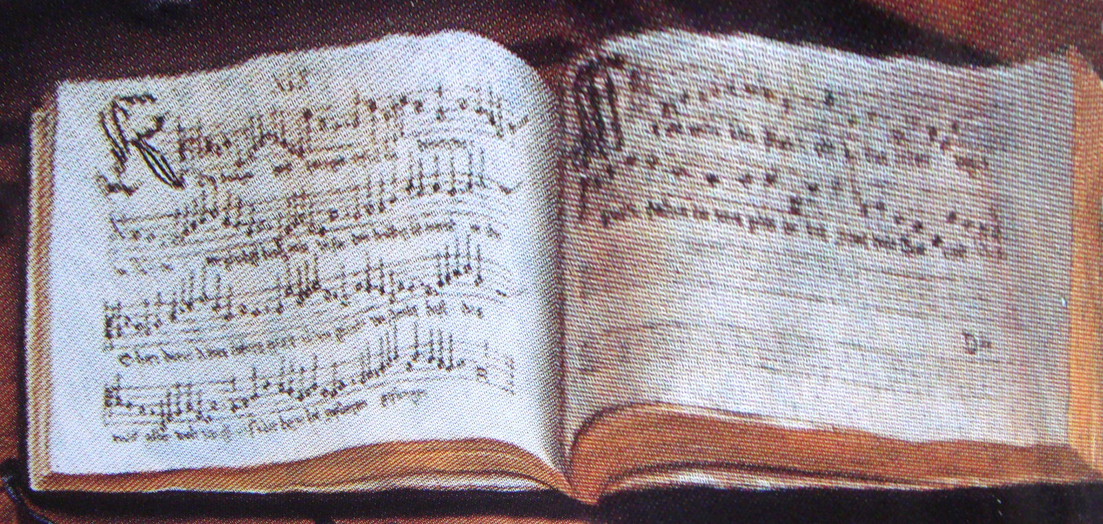 Ambassadors_Lutherian_Psalms